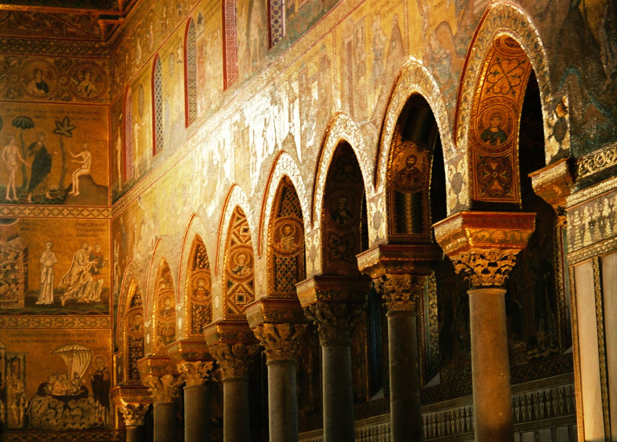 Cathedral of Monreale, Romanesque arches and byzantine mosaics in the interior